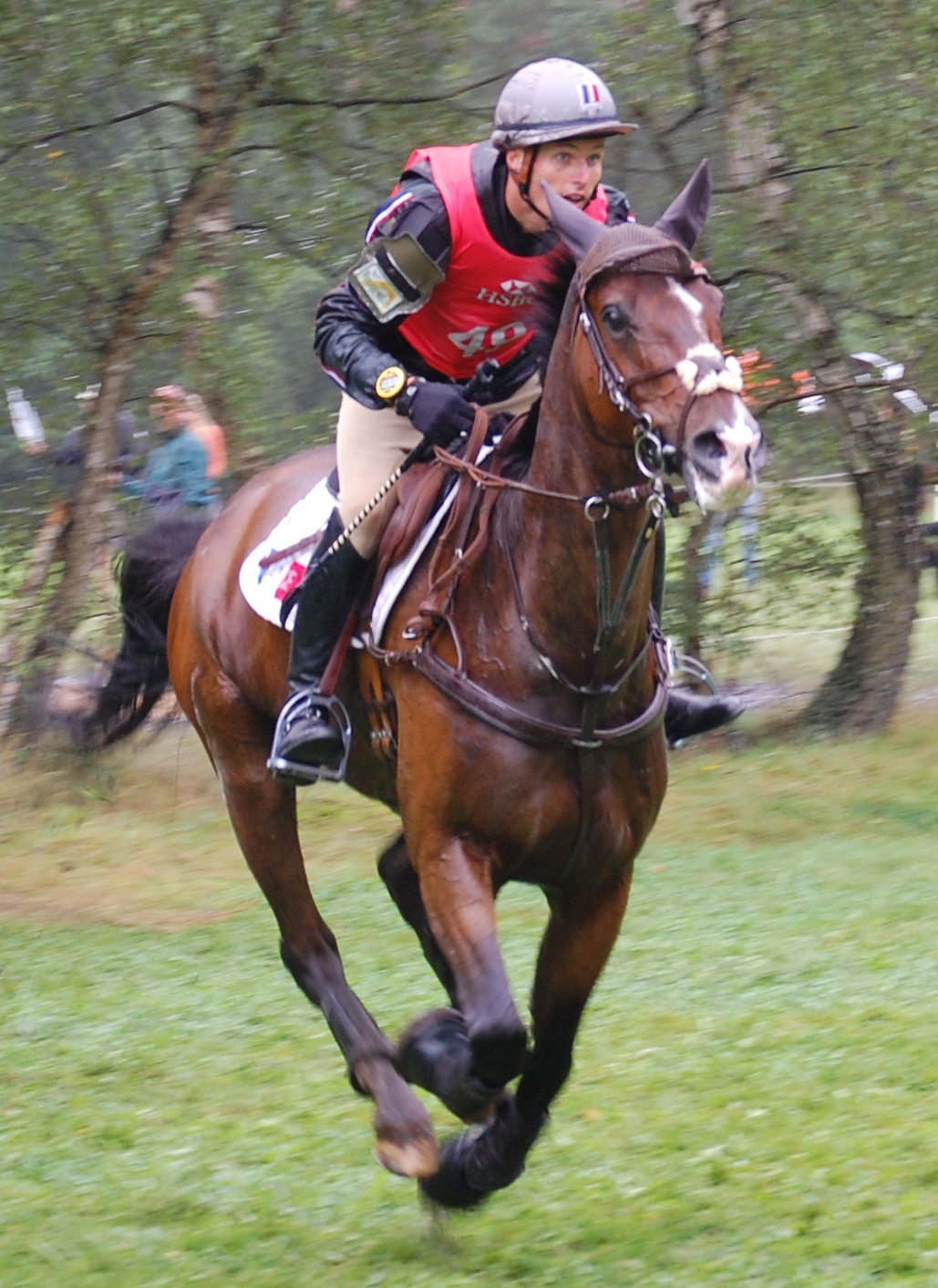 Donatien Schauly and Ocarina du Chanois, cross-country phase, 2011 European Eventing Championship, Luhmühlen